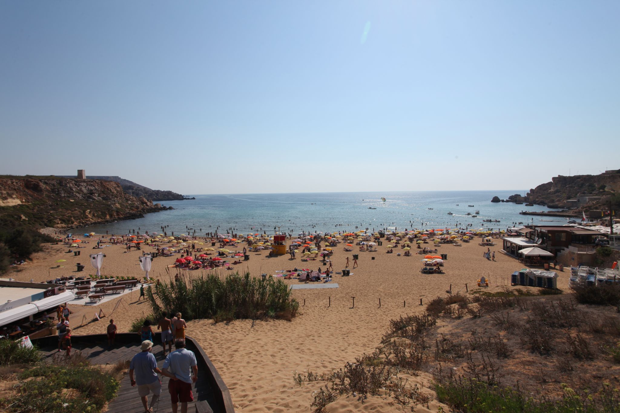 Golden Bay, Malta